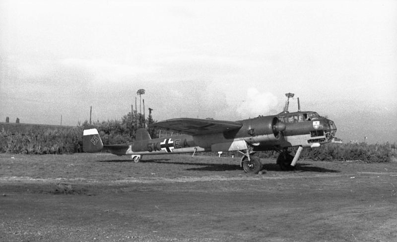 Information added by Wikimedia users.A German Dornier Do 17Z (5K+EA) of Stab/KG 3 (staff squadron, 3rd Bomb Wing) during the battle of Britain, 1940. Note the Stab/KG 3 emblem.